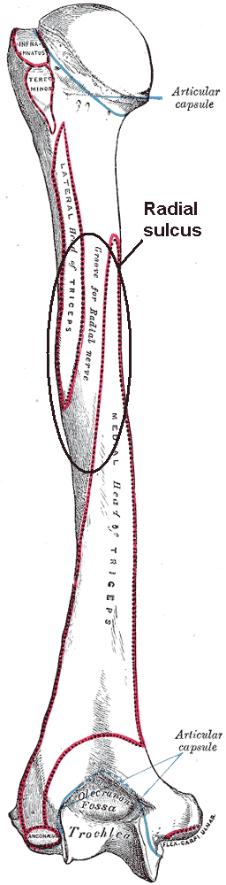 Application of Gray208.png Radial sulcus